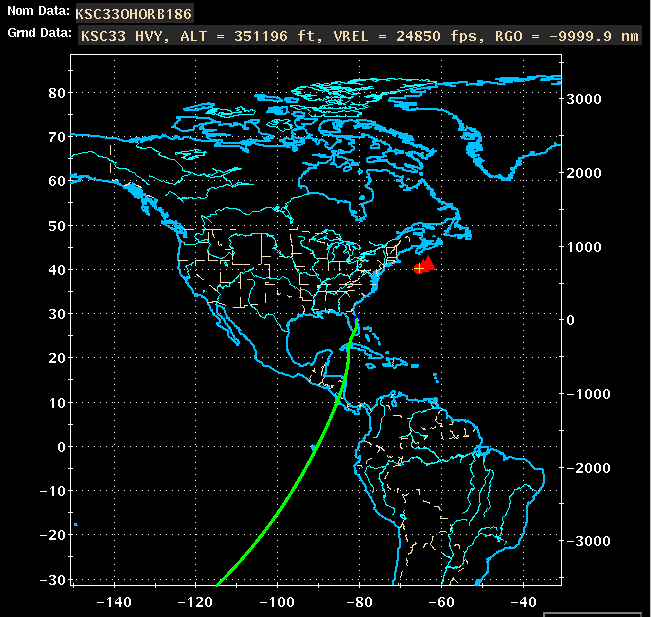 STS 132: Long-range ground track (Orbit 186)